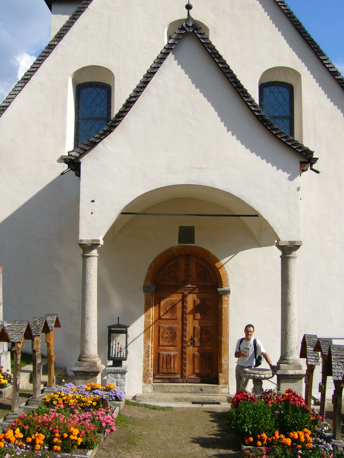 Door of the Church St. Theodul in the village of Niederwald, canton of Vallais, Switzerland. Picture taken by Peter Berger, September 30, 2006.